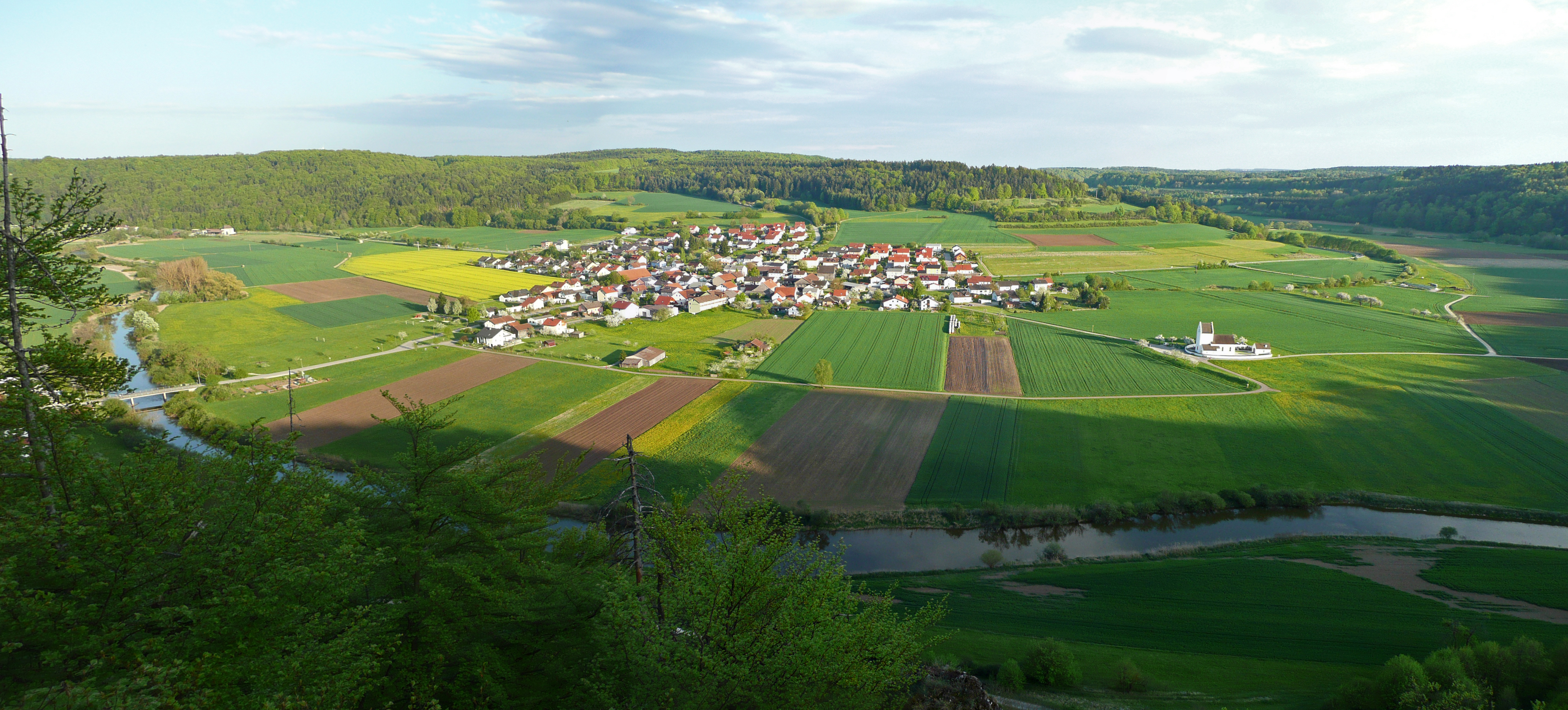 Böhming in the Altmühl valley seen from N. The church outside the village is located within the district of the ancient Roman castle.